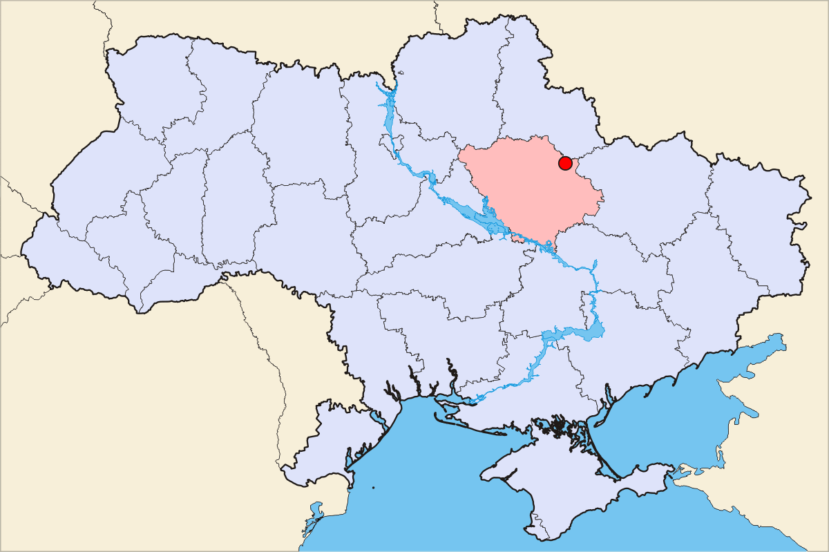 Description = Bilsk geographical position Source = own work, Skluesener Date = 15.01.2006 Author = Skluesener Credits = Colours chosen according to a map of steschke